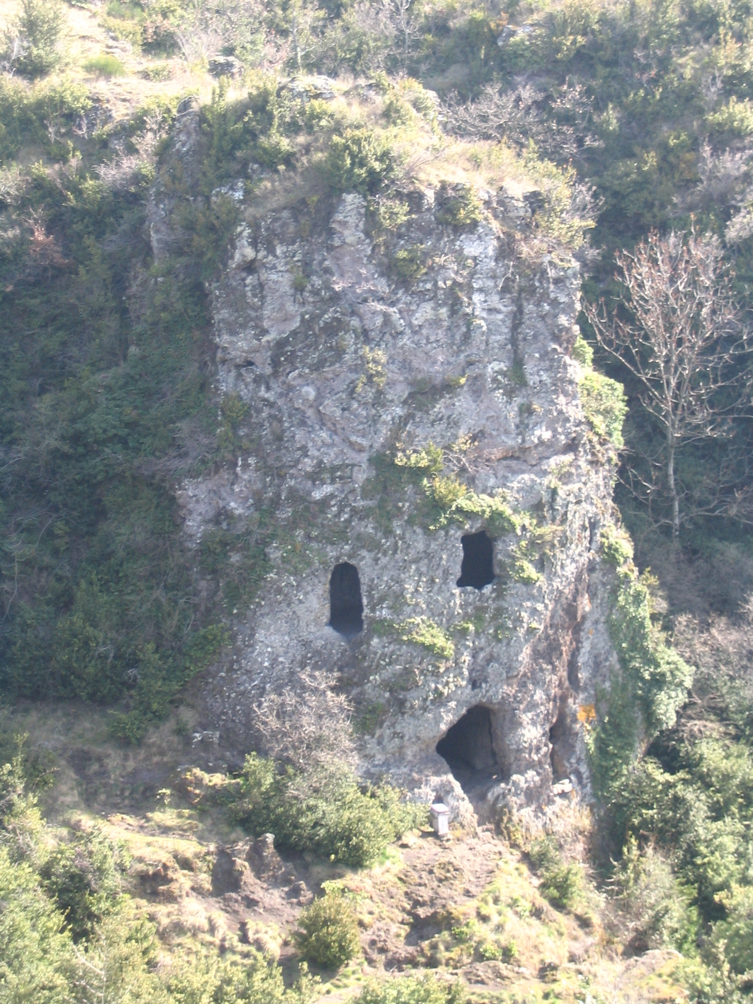 The Balmes de Montbrun in the Ardéche landscape, France.